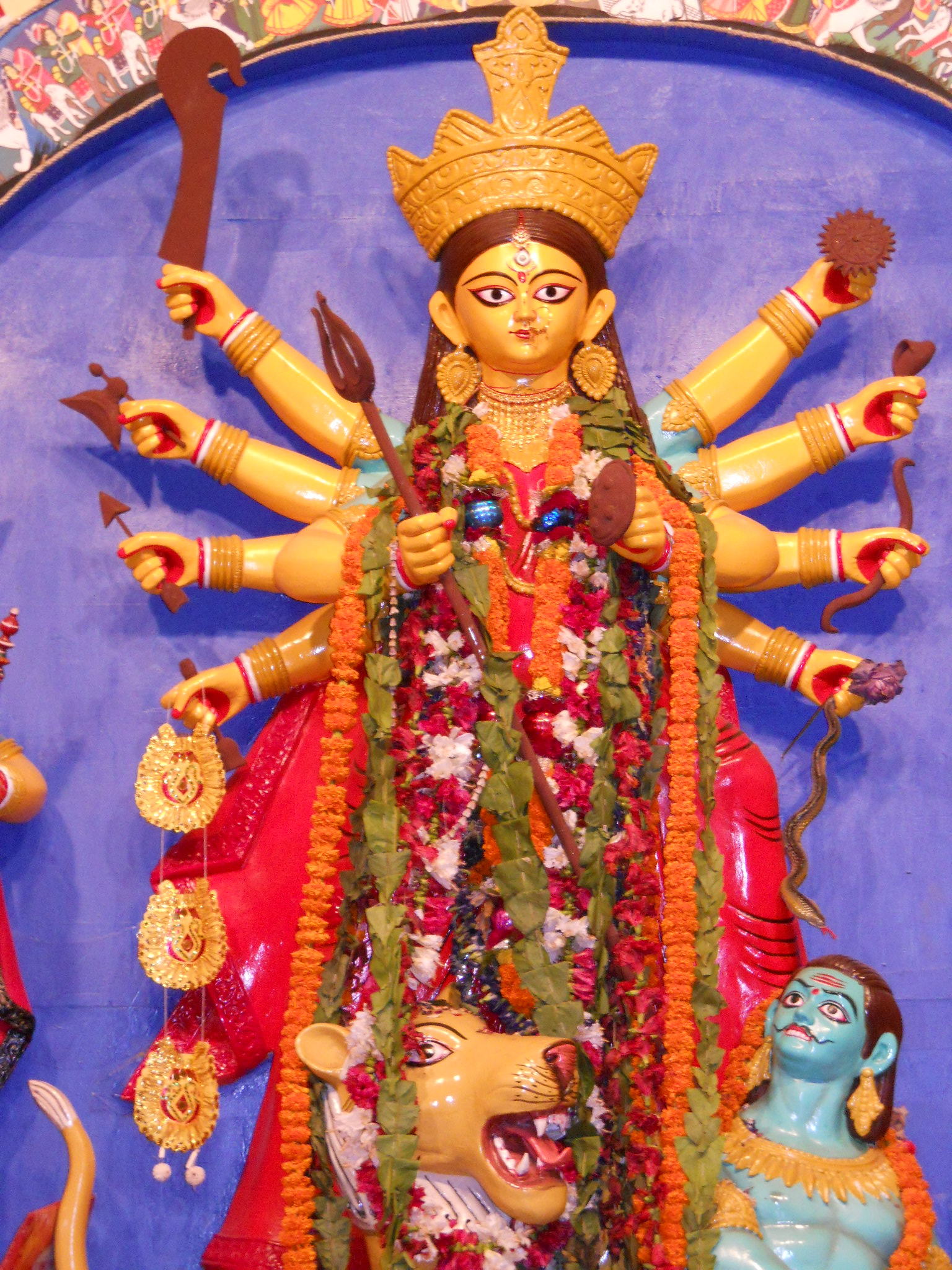 Phalguni Sangha